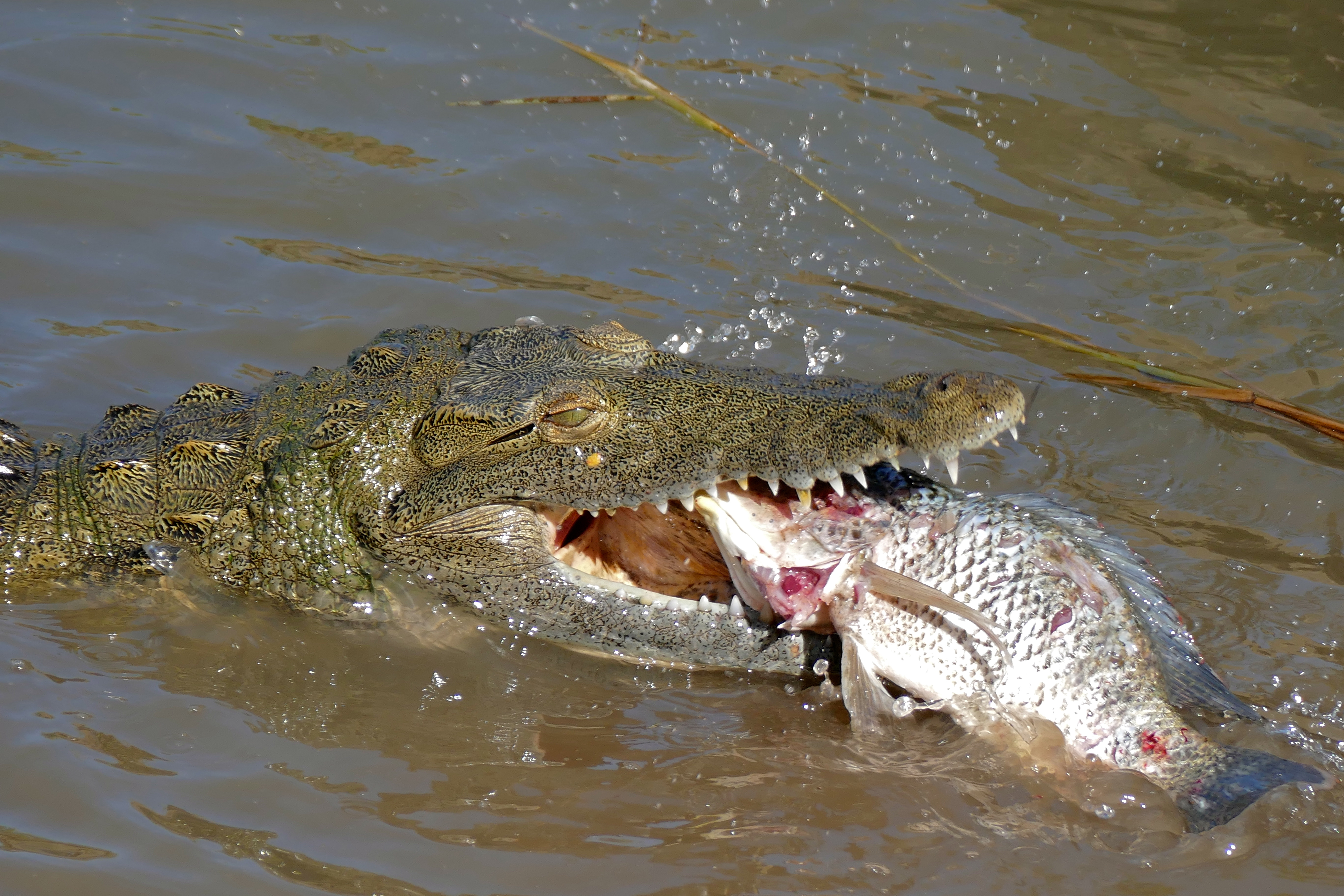 Sabie Bridge, H10 Road East of Lower Sabie, Kruger NP, SOUTH AFRICA